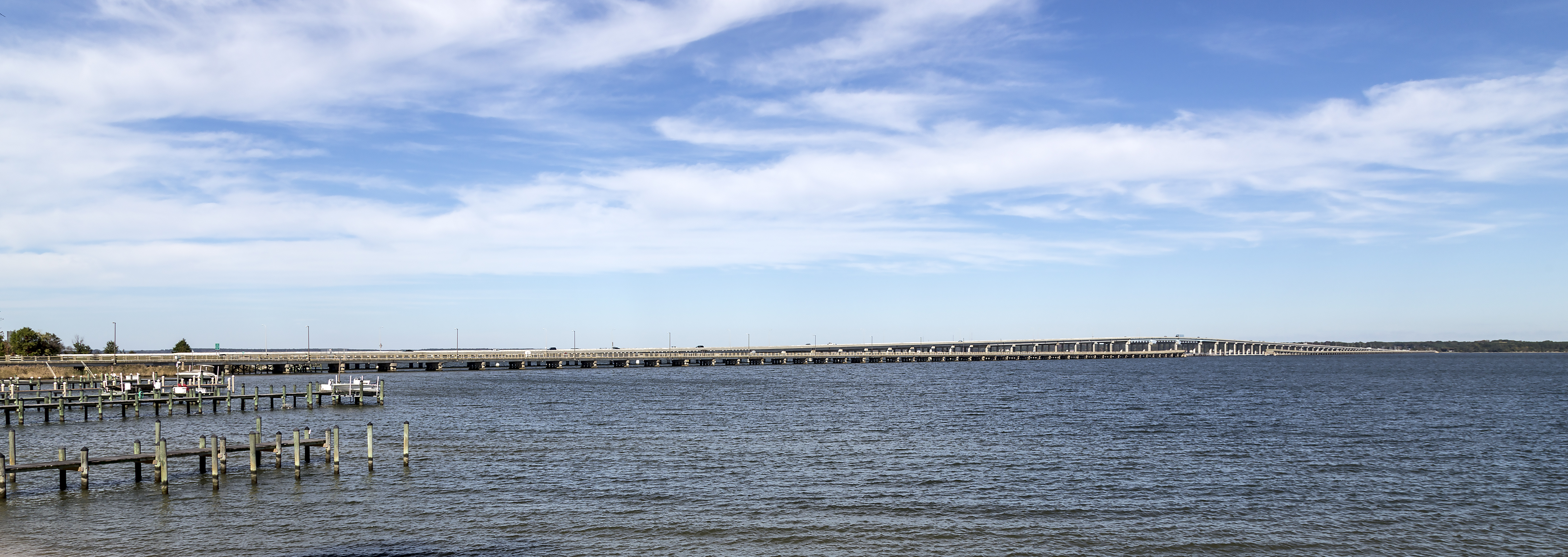 The Choptank River just above Cambridge, Maryland, USA, with the Choptank River fishing pier in the foreground and the Frederick C. Malkus (US Route 50) Bridge in the background